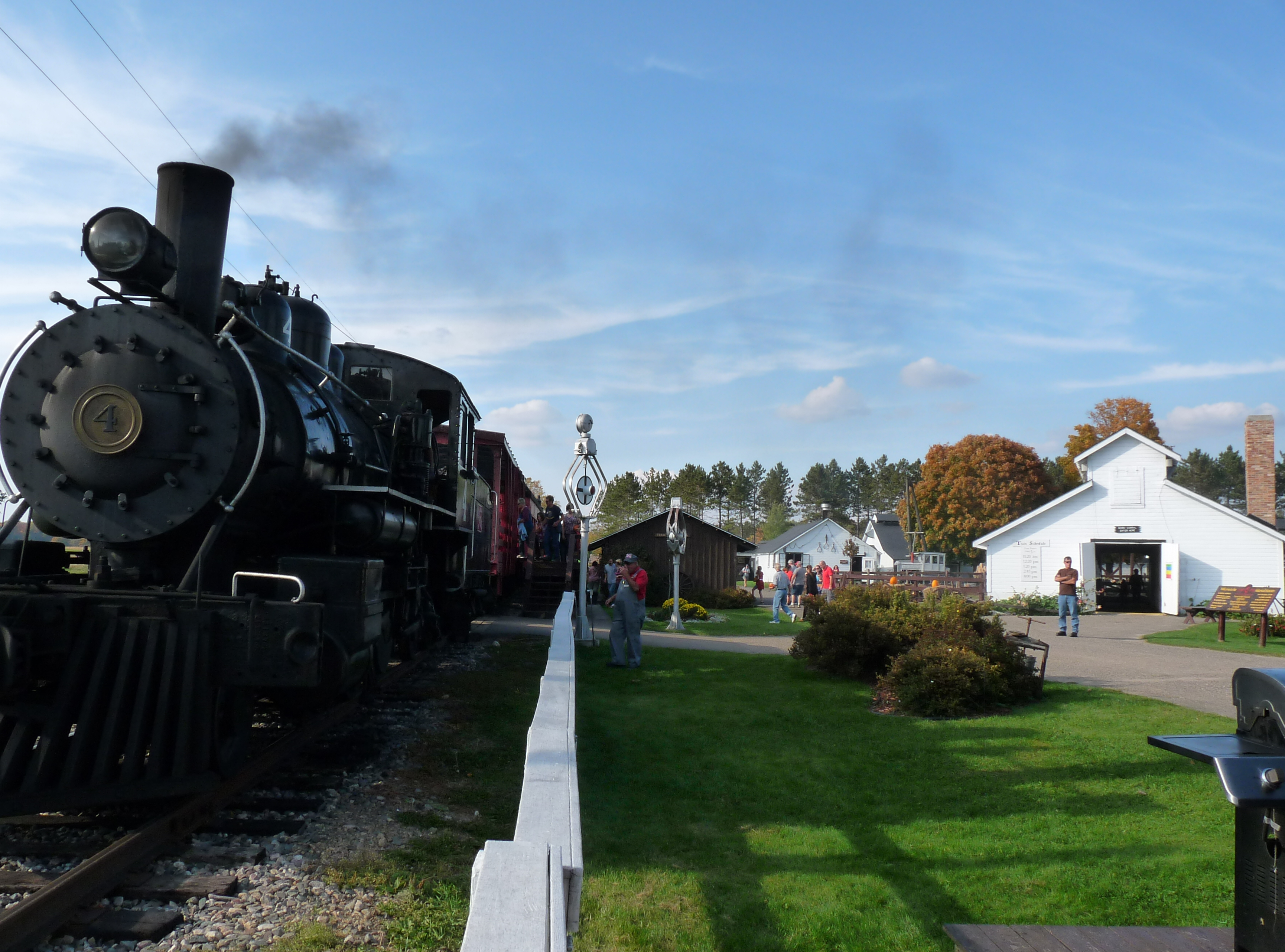 In the 1890s Camp Five was a logging camp of the Connor Lumber Company near Laona in northern Wisconsin. Later it became a company farm which produced food for Connor's logging camps. Today it is a living history museum accessed via the train pictured, and is listed on the National Register of Historic Places.